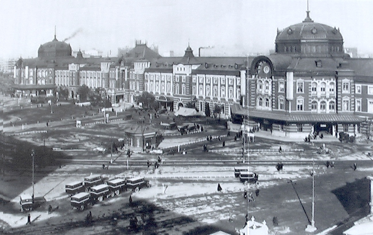 Original brick Tokyo Station (Marunouchi Building) in 1914.